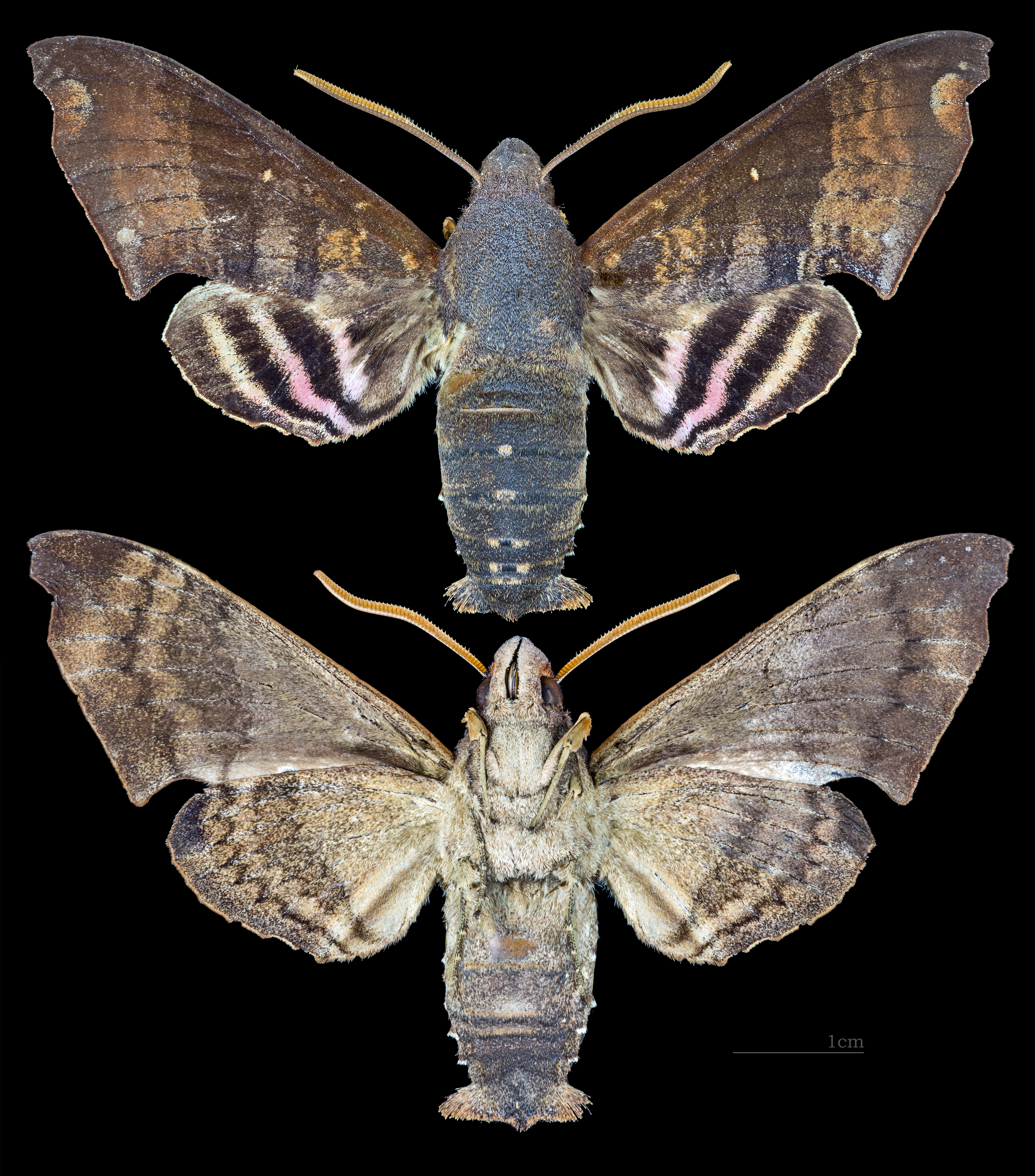 Pachygonidia martini - Two views of same specimen